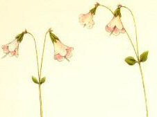 Linnaea borealis